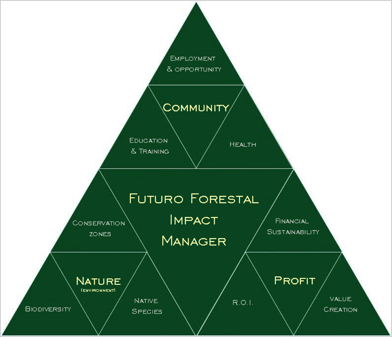 What impact could investemnts generate?